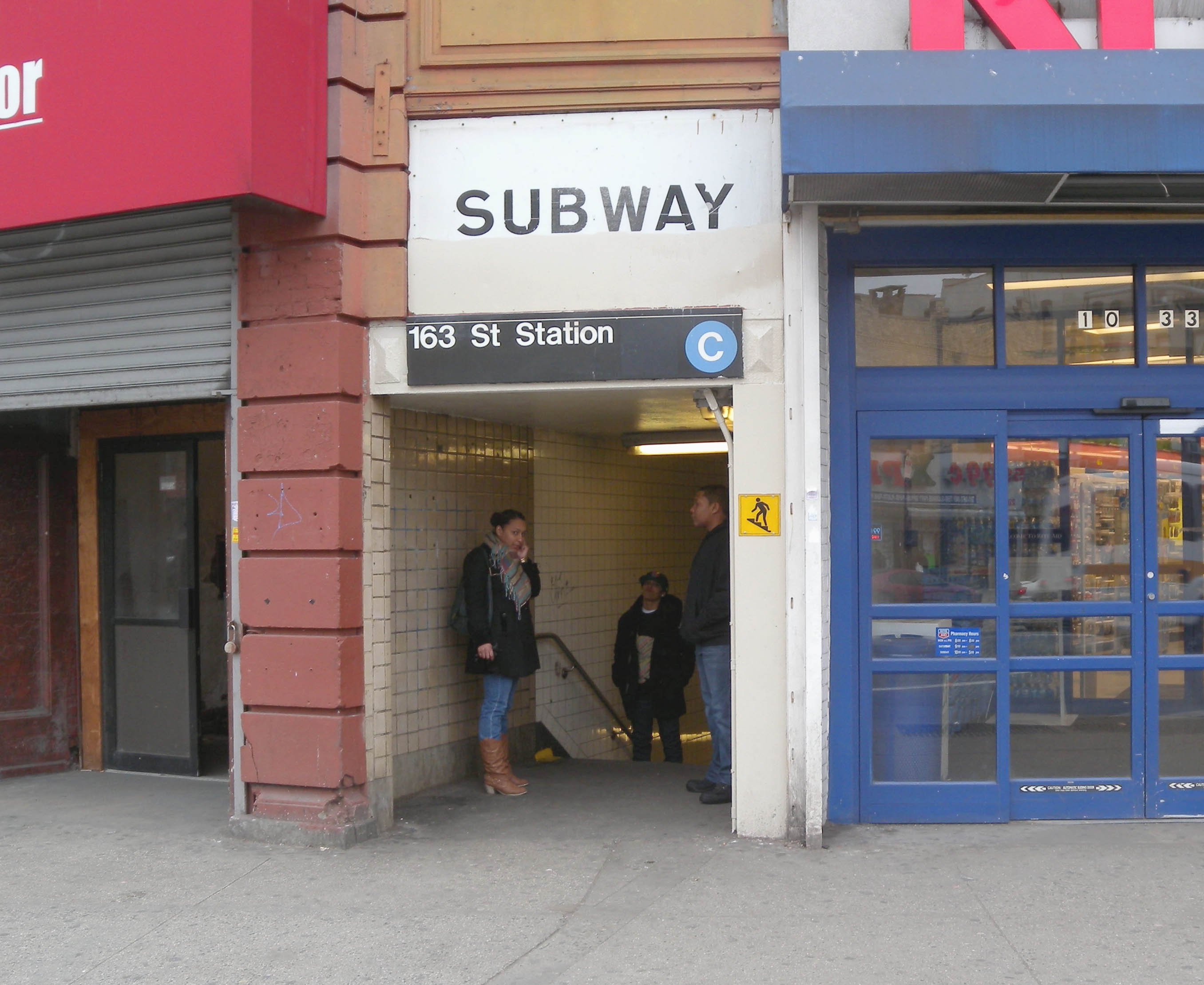 Looking west from Amsterdam Avenue at en:163rd Street–Amsterdam Avenue (IND Eighth Avenue Line) on a cloudy early afternoon.